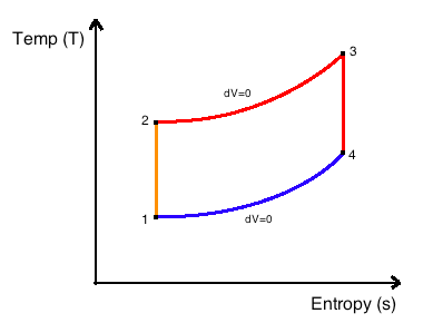 T-s Diagram of Otto Cycle